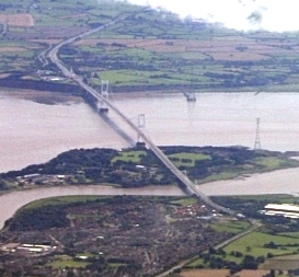 The Severn Road Bridge between England and Wales.